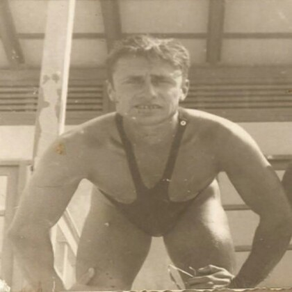 taq dafa..